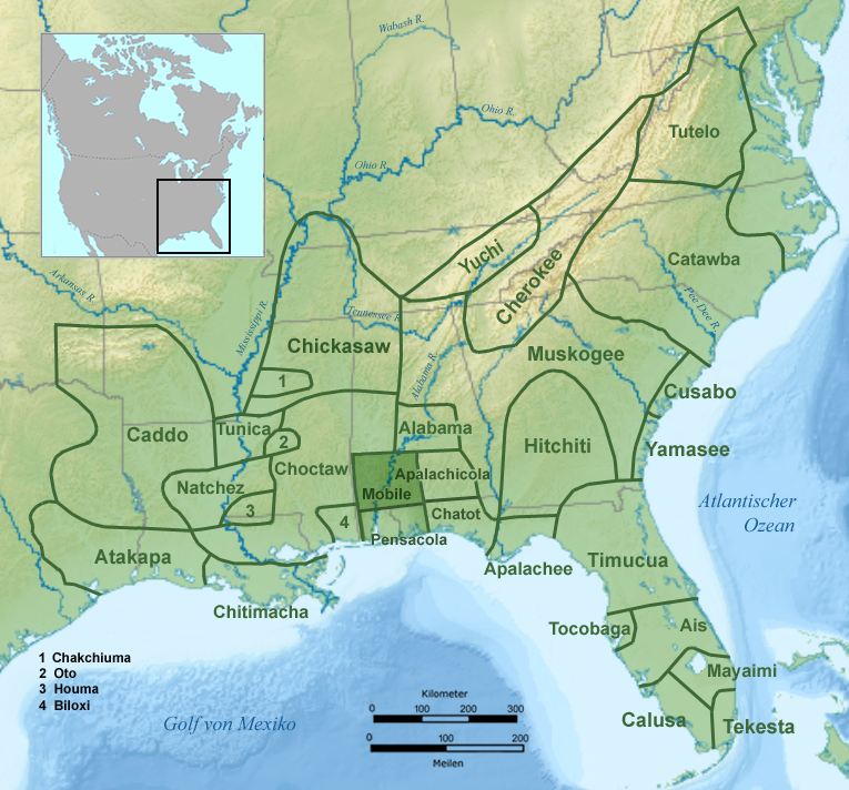 Tribal territory of Mobile during sixteenth century